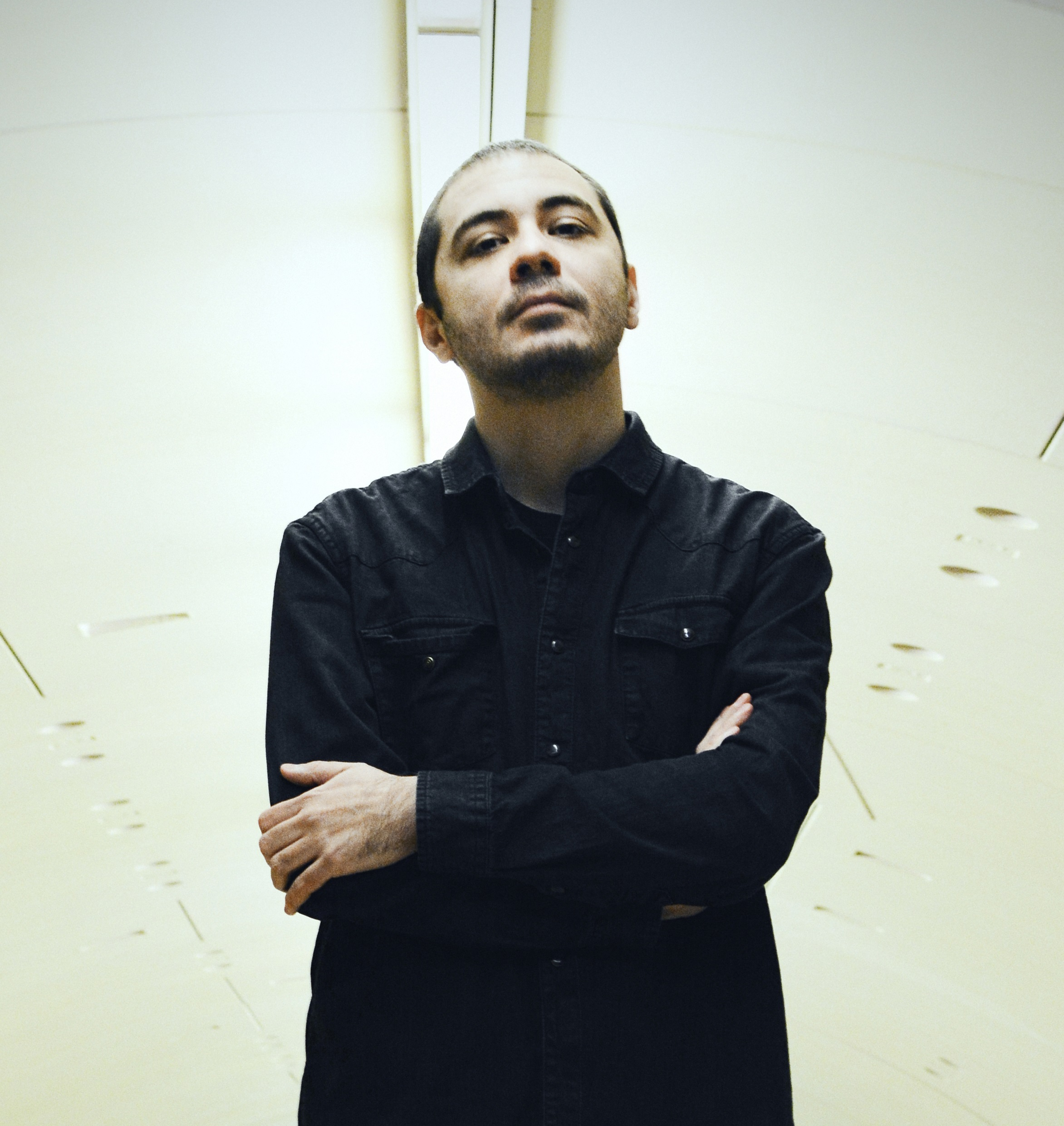 Blagoy D. Ivanov